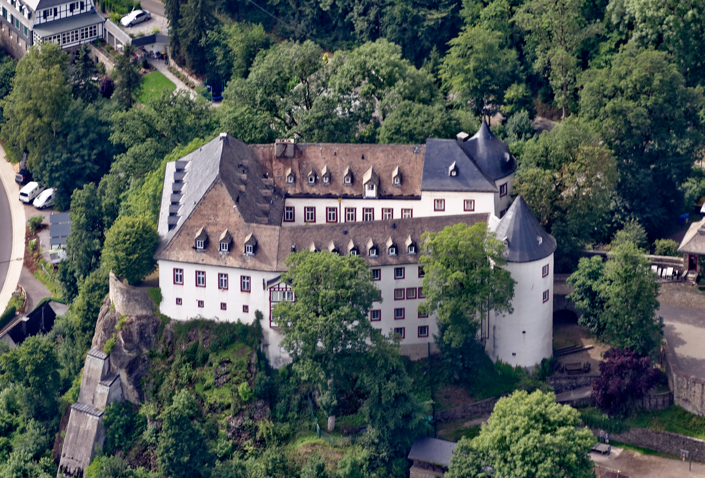 Burg Bilstein (Lennestadt-Bilstein) The making of this document was supported by the Community-Budget of Wikimedia Germany.